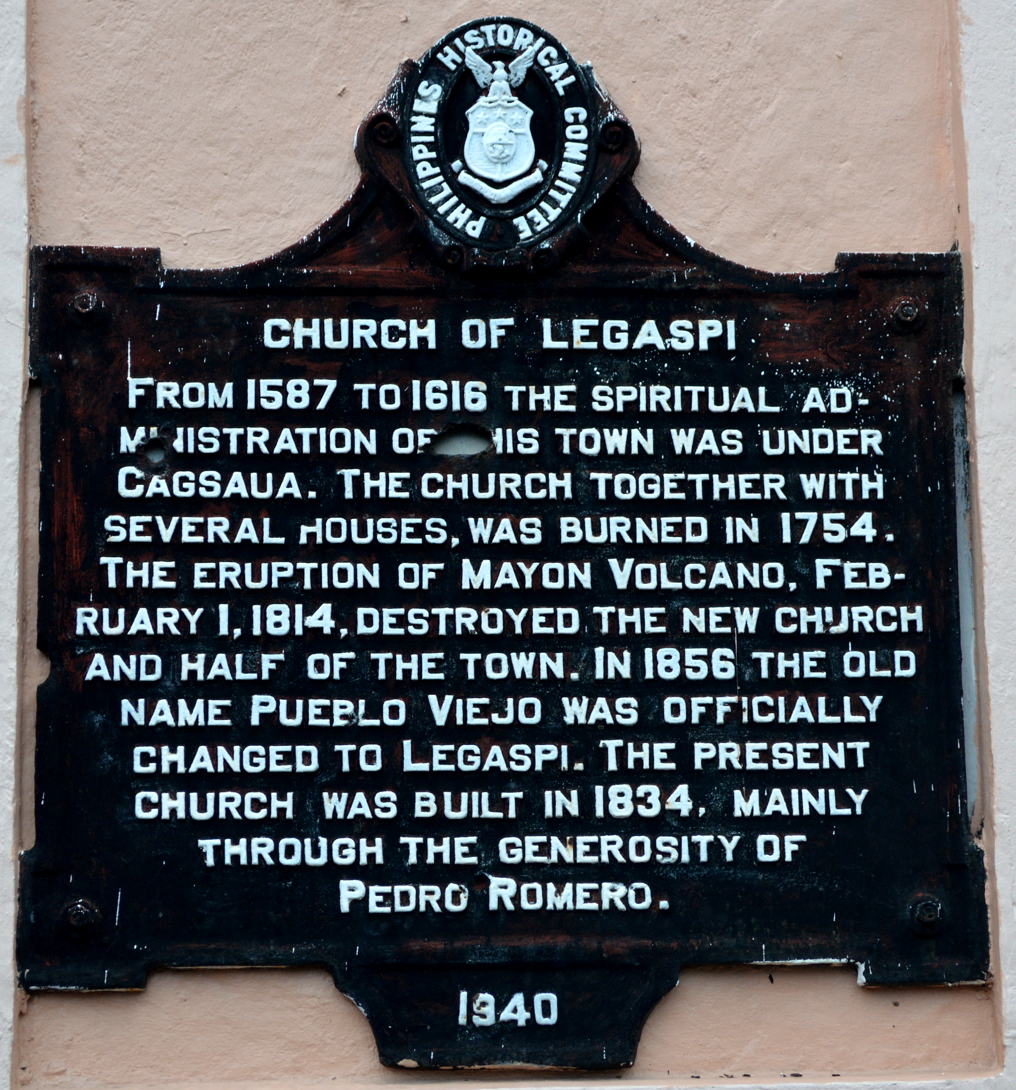 Historical Marker at the Church of Legaspi in Albay, Philippines